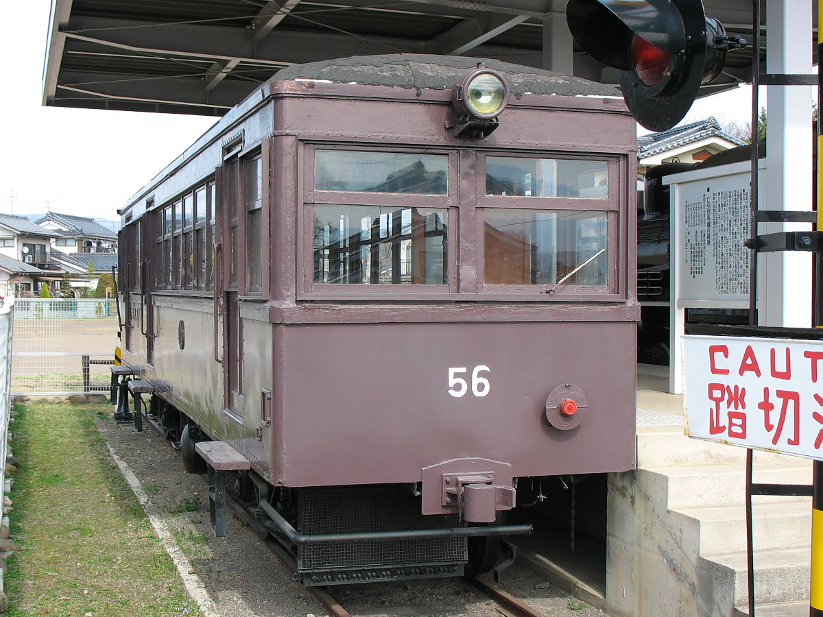 Saku Railway gasoline railcar KiHaHoNi 56